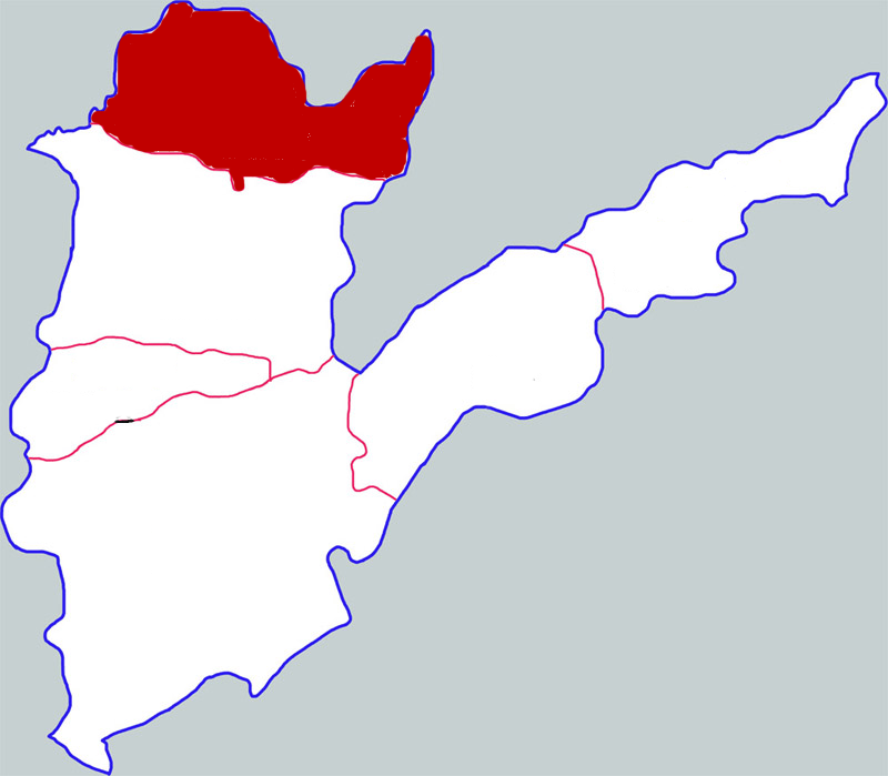 Location of Nanle county in Puyang city, China